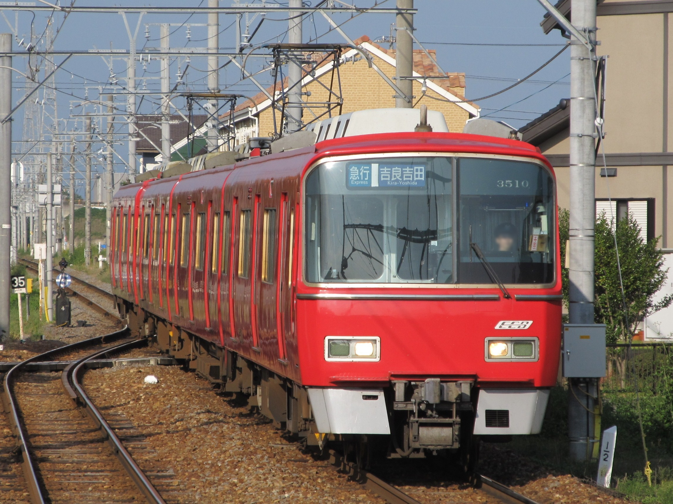 Meitetsu 3500 series. Express bound for Kira Yoshida.